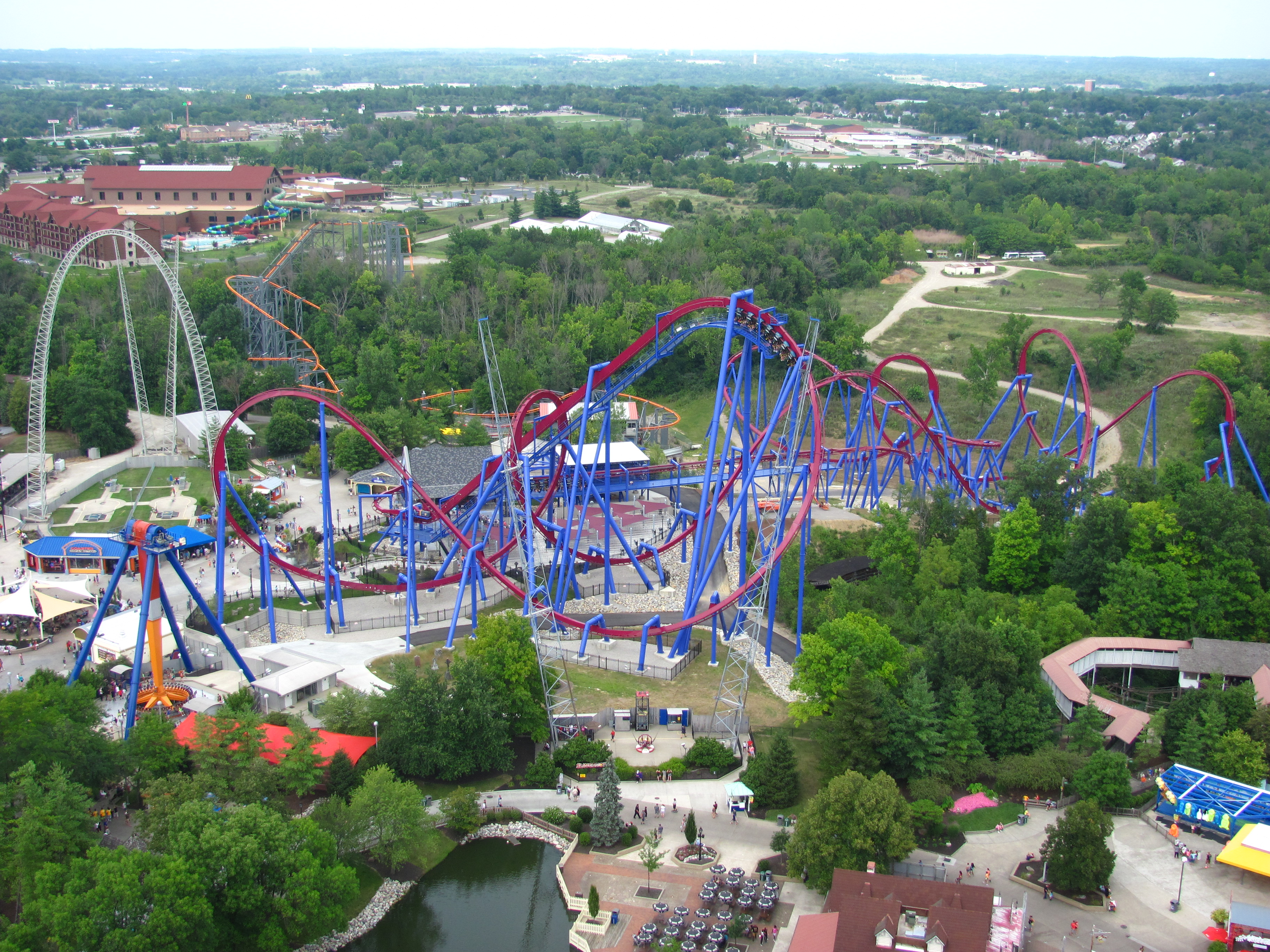 Banshee at Kings Island as viewed from the Eiffel Tower.